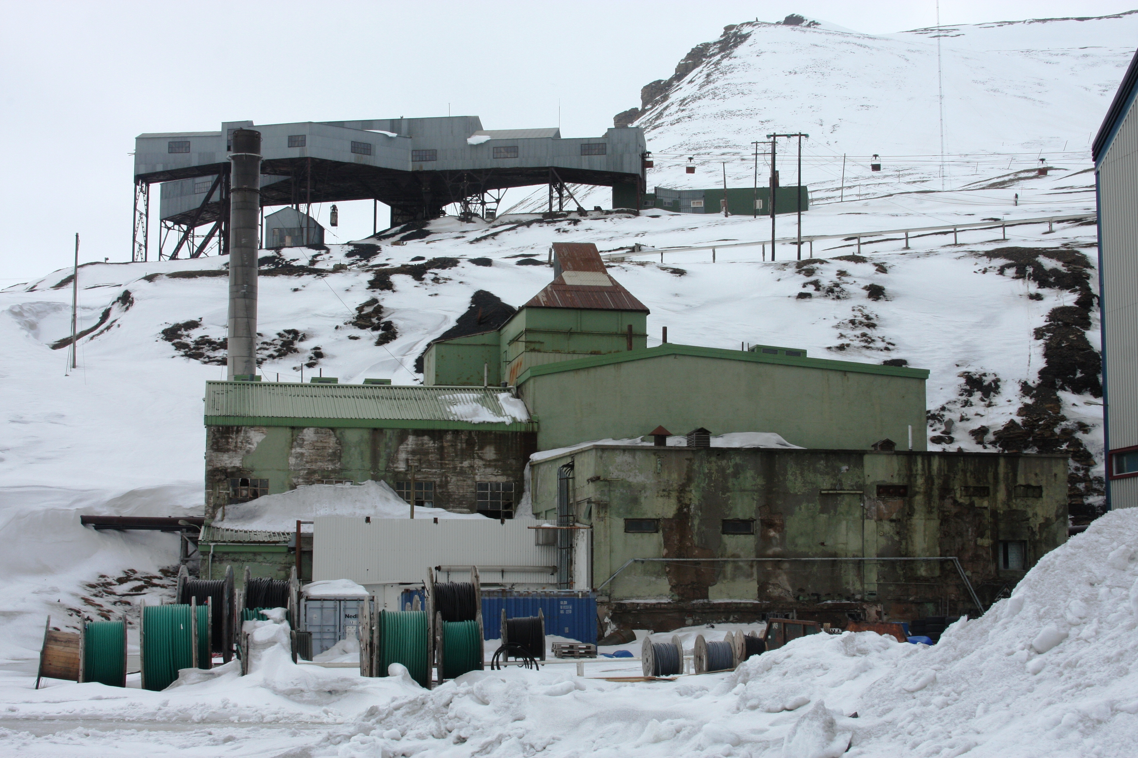 The first coal-fired power plant of Longyearbyen, Svalbard. Operated since 1924. Being older than 1946, it is automatically protected as a cultural heritage site.